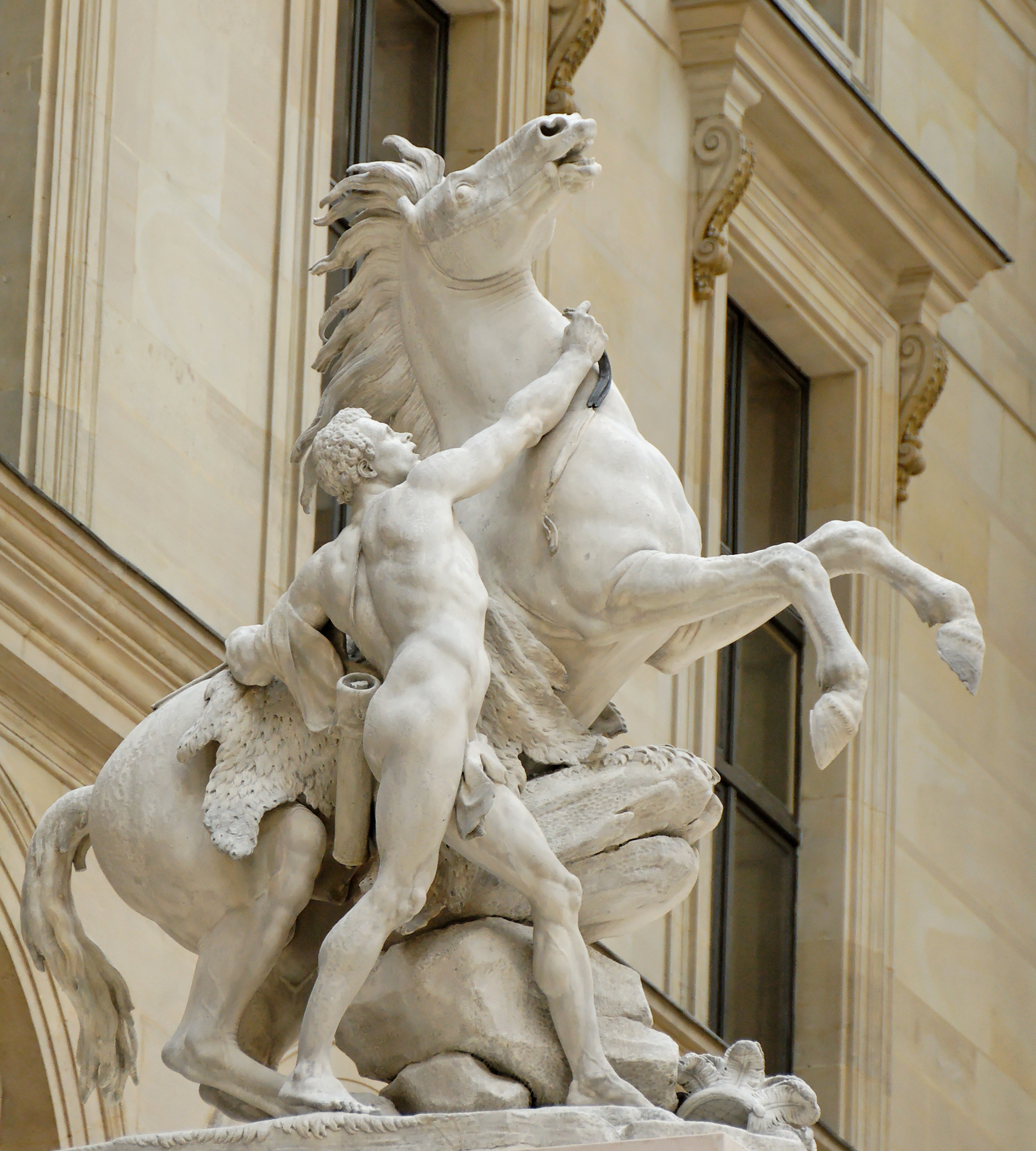 One of the so-called Marly Horses. Carrara marble, 1739-1745. Commissioned in 1739 for the park of the castle of Marly, the two sculptures were transfered in 1794 to the entrance to the Champs-Élysées in Paris and replaced by cement copies in 1985.